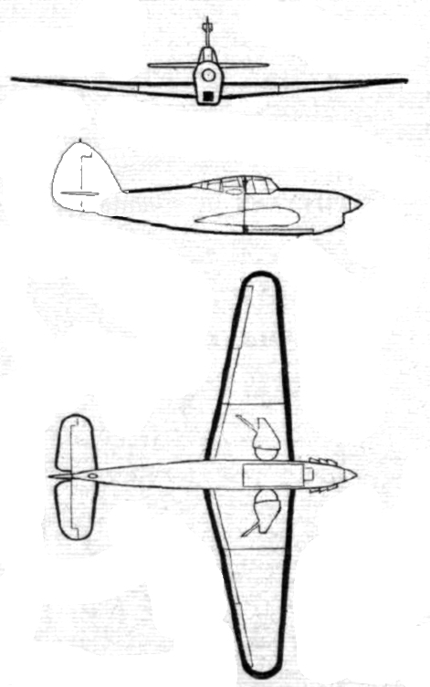 Three side view of the Hawker Henley TT III target tug.